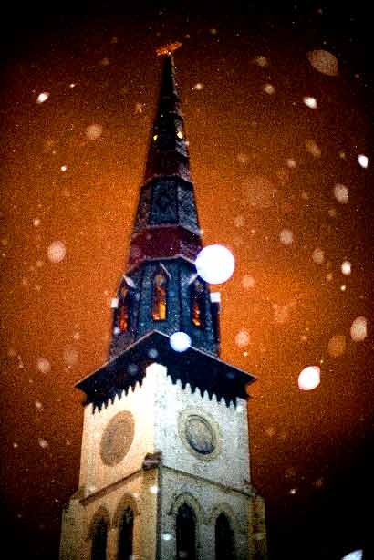 Rebuilt steeple of a church at 23 Wurts Street in the rondout area of Kingston NY. A replica of the Mary Powell steamship can be seen crowning the slate covered tower of some 200 feet. This is the steeple of the Gay Wedding Chapel.